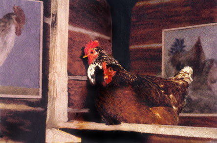 Chicken & Art - NOW GALLERY - New York 1987 ."For a chicken the most beautiful is chicken"